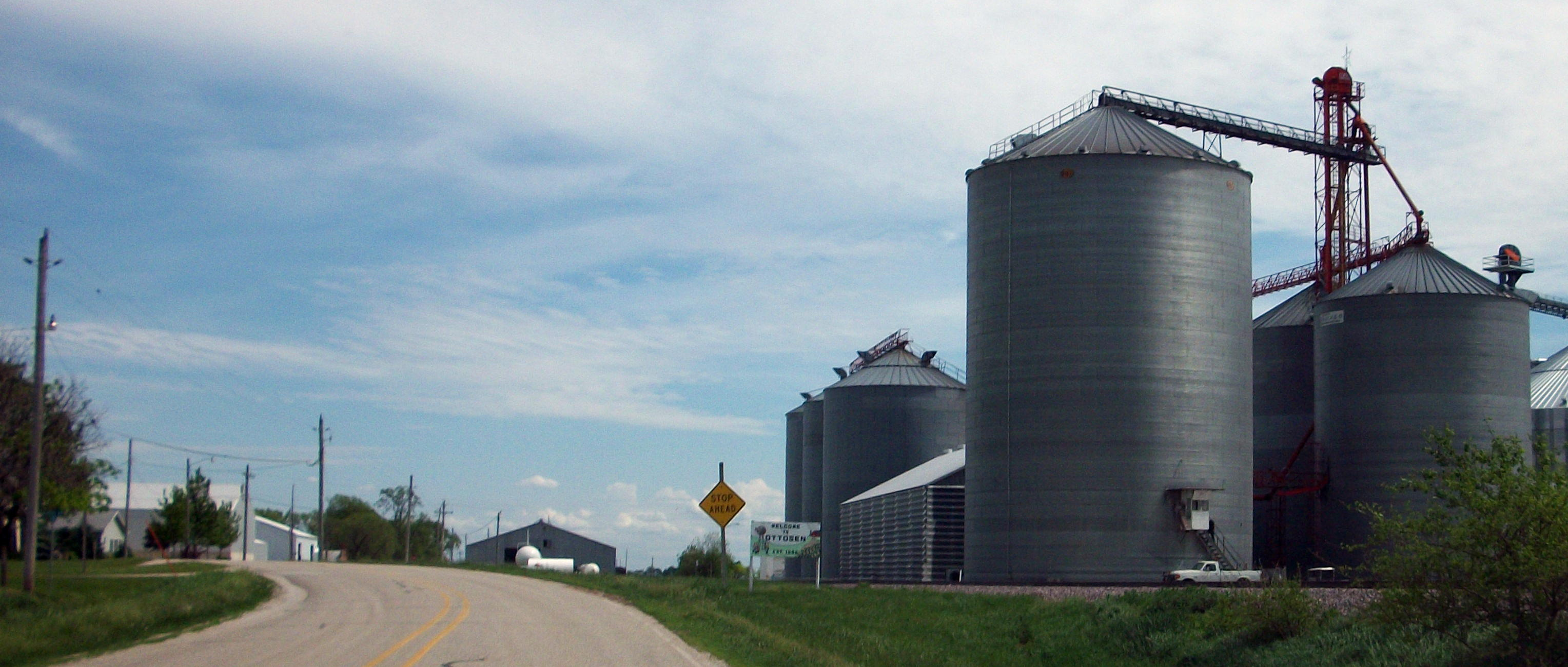 Ottosen elevator in Ottosen, Iowa. It is viewed facing south.